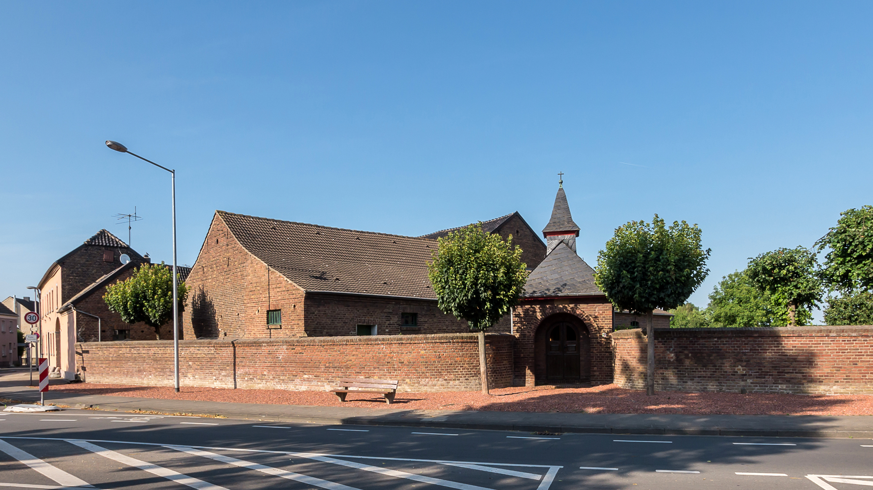 Blerichen - Kolpingstraße 26 Vierkanthof mit KapelleThis is a photograph of an architectural monument., no. 49